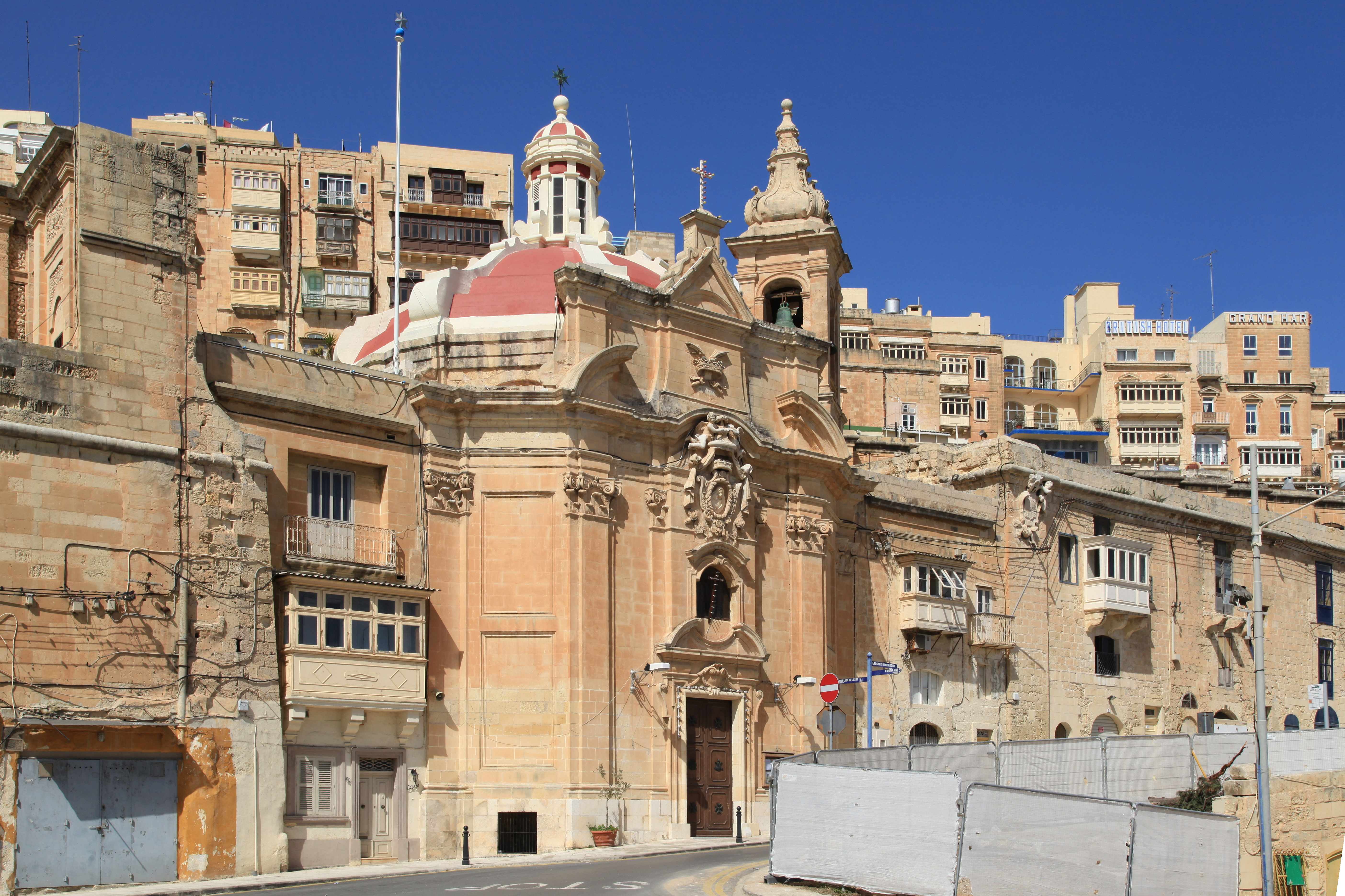 Knisja tal-Madonna ta' Liesse, Triq Liesse in Valletta, Malta